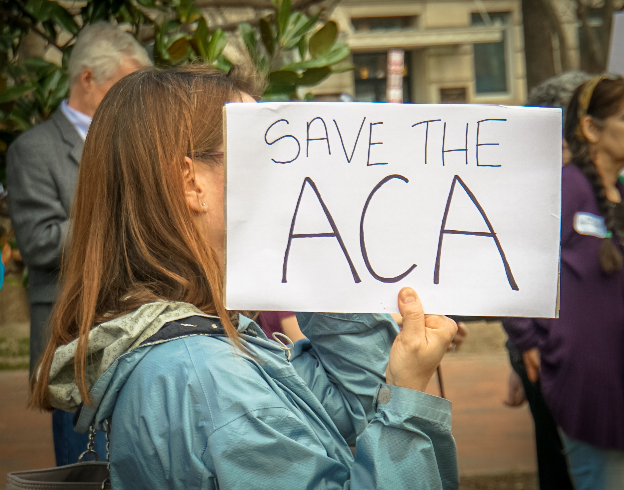 "Save the ACA" Rally in Support of the Affordable Care Act, at The White House, Washington, DC USA